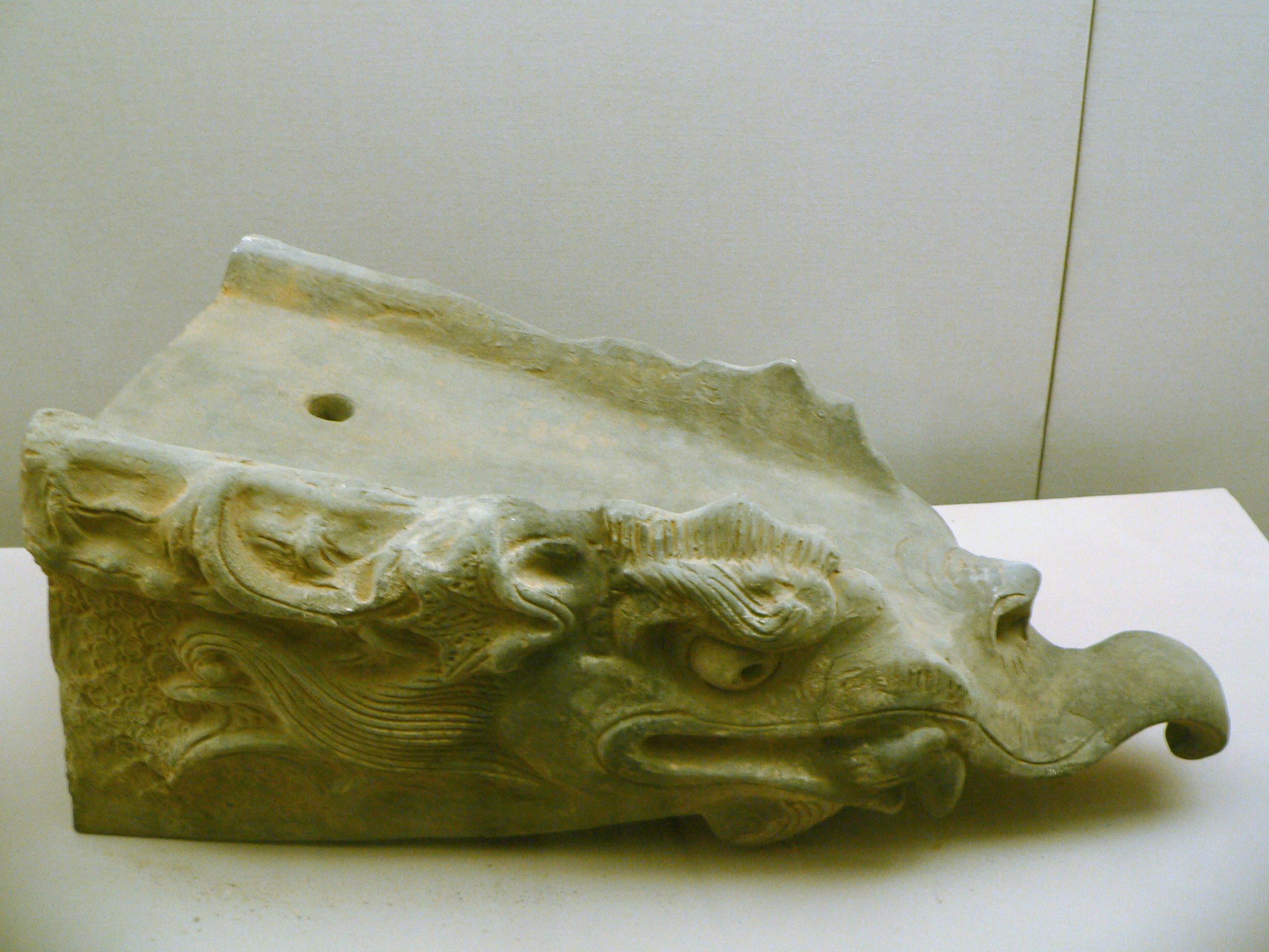 Animal-Shaped Ornament Song Dynasty，Unearthed from the site of the Garden in a Administrative Office of Song Dynasty, Luoyang, 1991